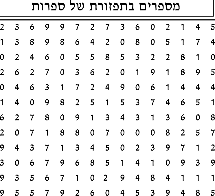 numbers search